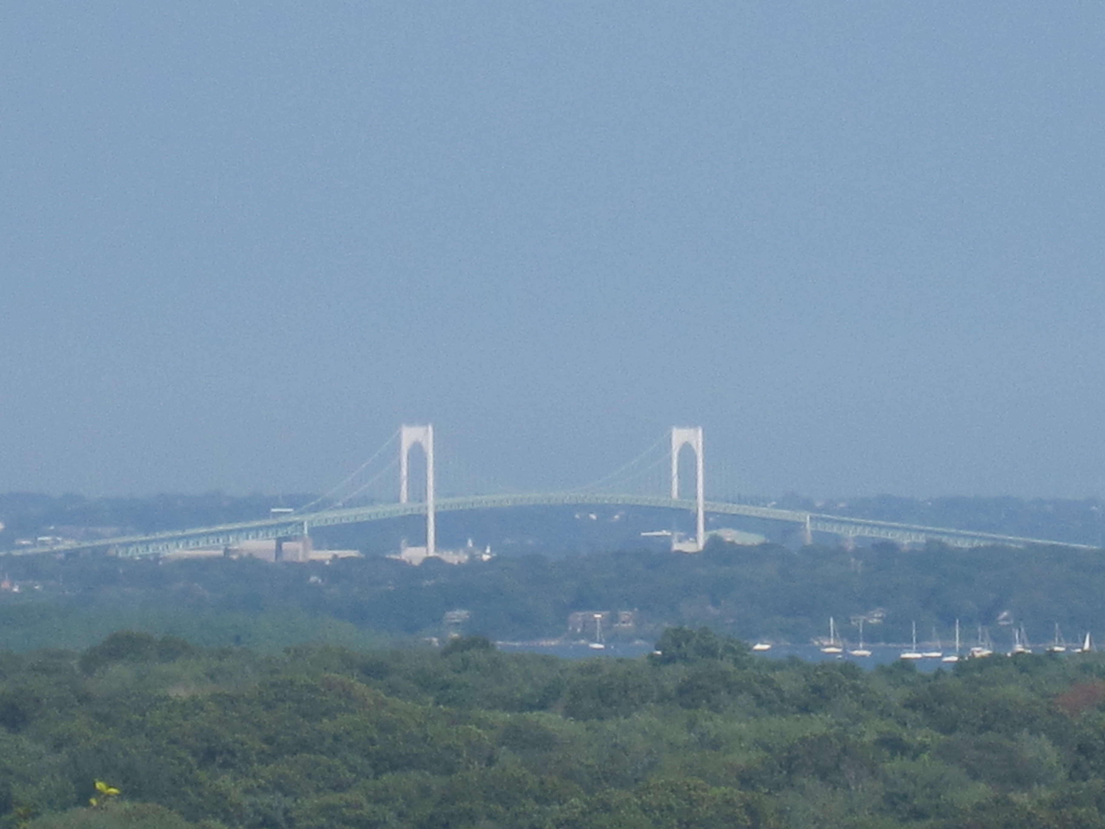 View of the Claiborne Pell (Newport) Bridge and Narragansett Bay from the Hannah Robinson Tower, an observation tower in South Kingston, RI